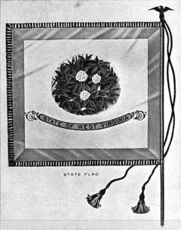 The second official Flag of West Virginia adopted by the West Virginia Legislature on February 25, 1907.